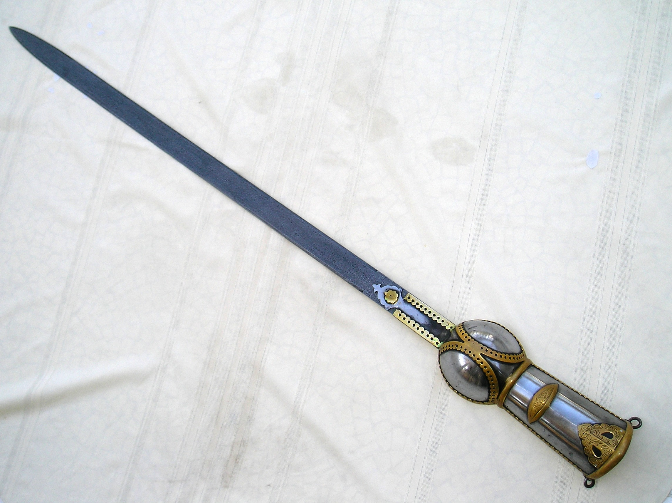 The new pictures of Pata. A very deadly weapon, mainly used as a cavalry weapon. This one is from my personal collection. Restored but largely in its original form. The blade is 41” and forged from Damascus steel.